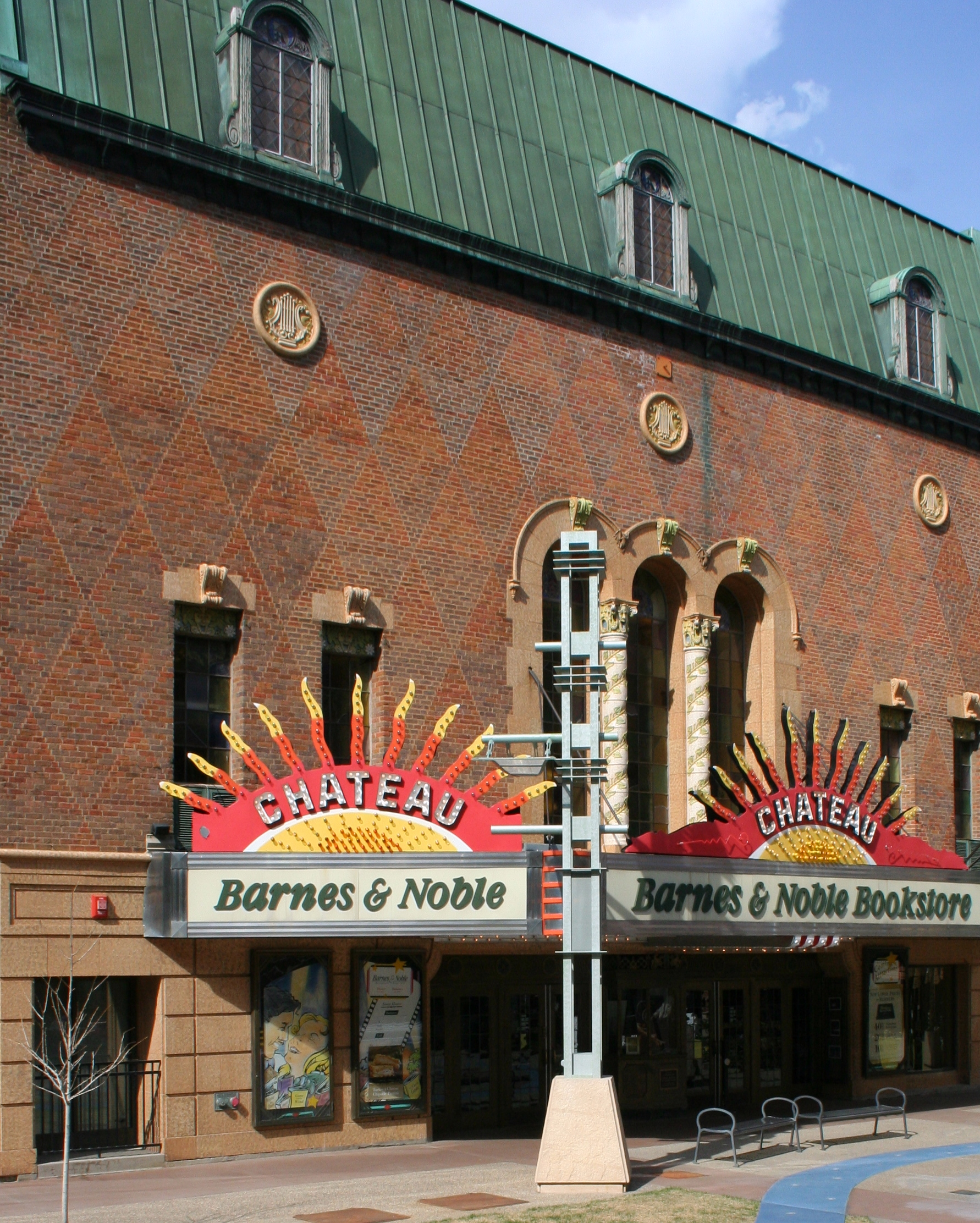 Barnes & Noble Bookstore in the historic Chateau Theatre on the Peace Plaza in Rochester, Minnesota